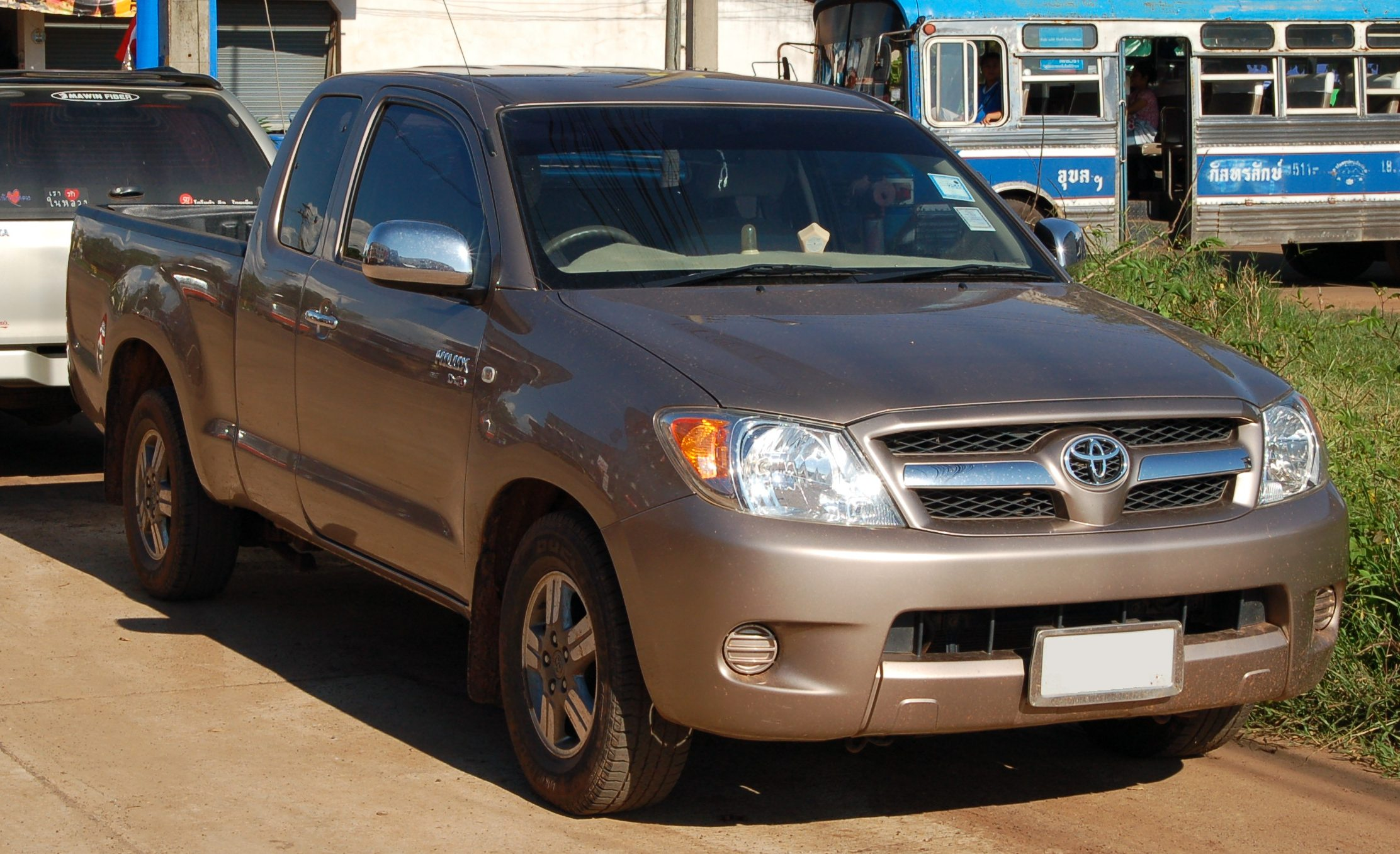 Toyota Hilux, found in the northeast region of Thailand